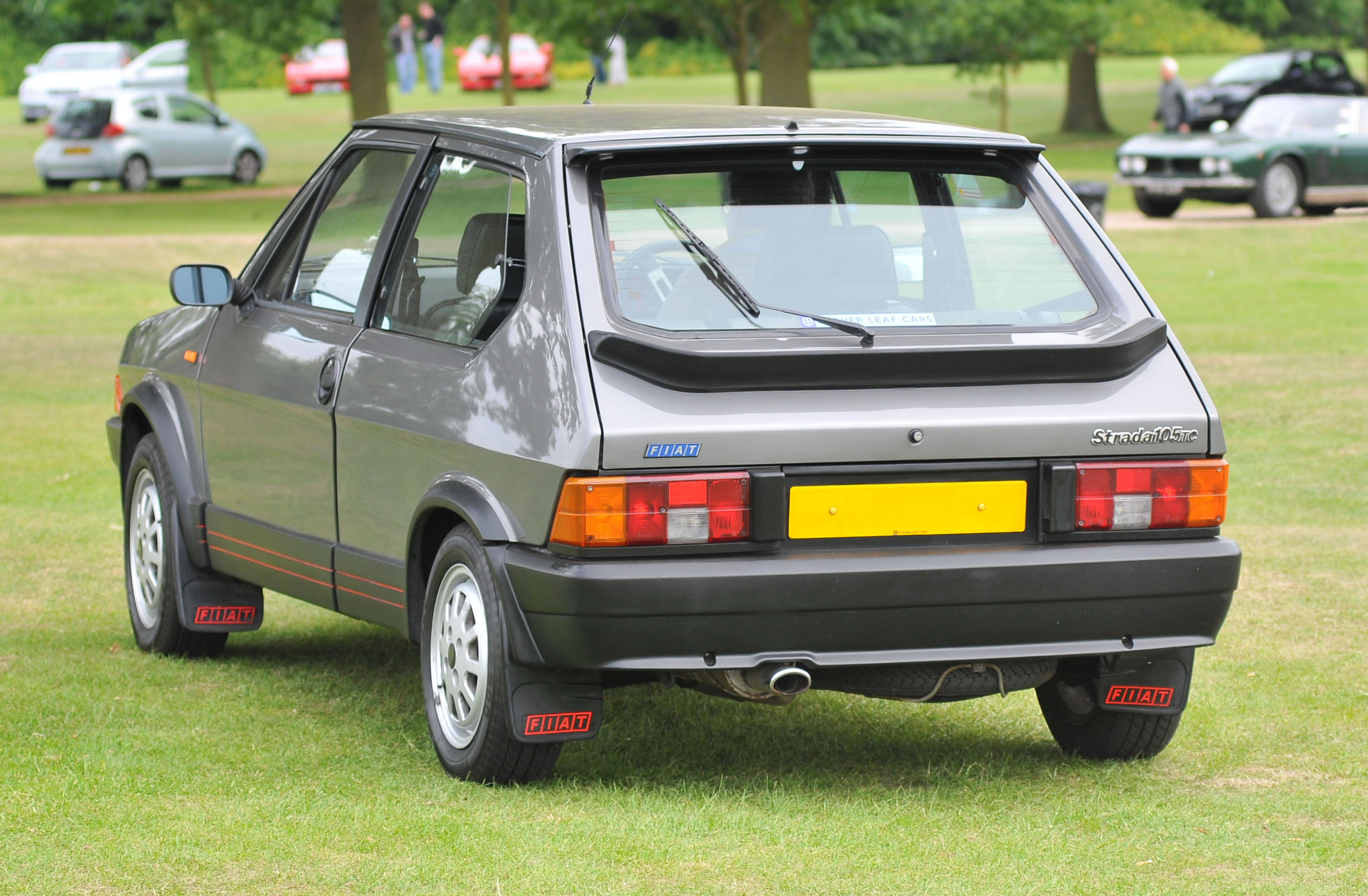 1983 Fiat Strada (Ritmo) 105TC at AutoItalia, Stanford Hall June 2011